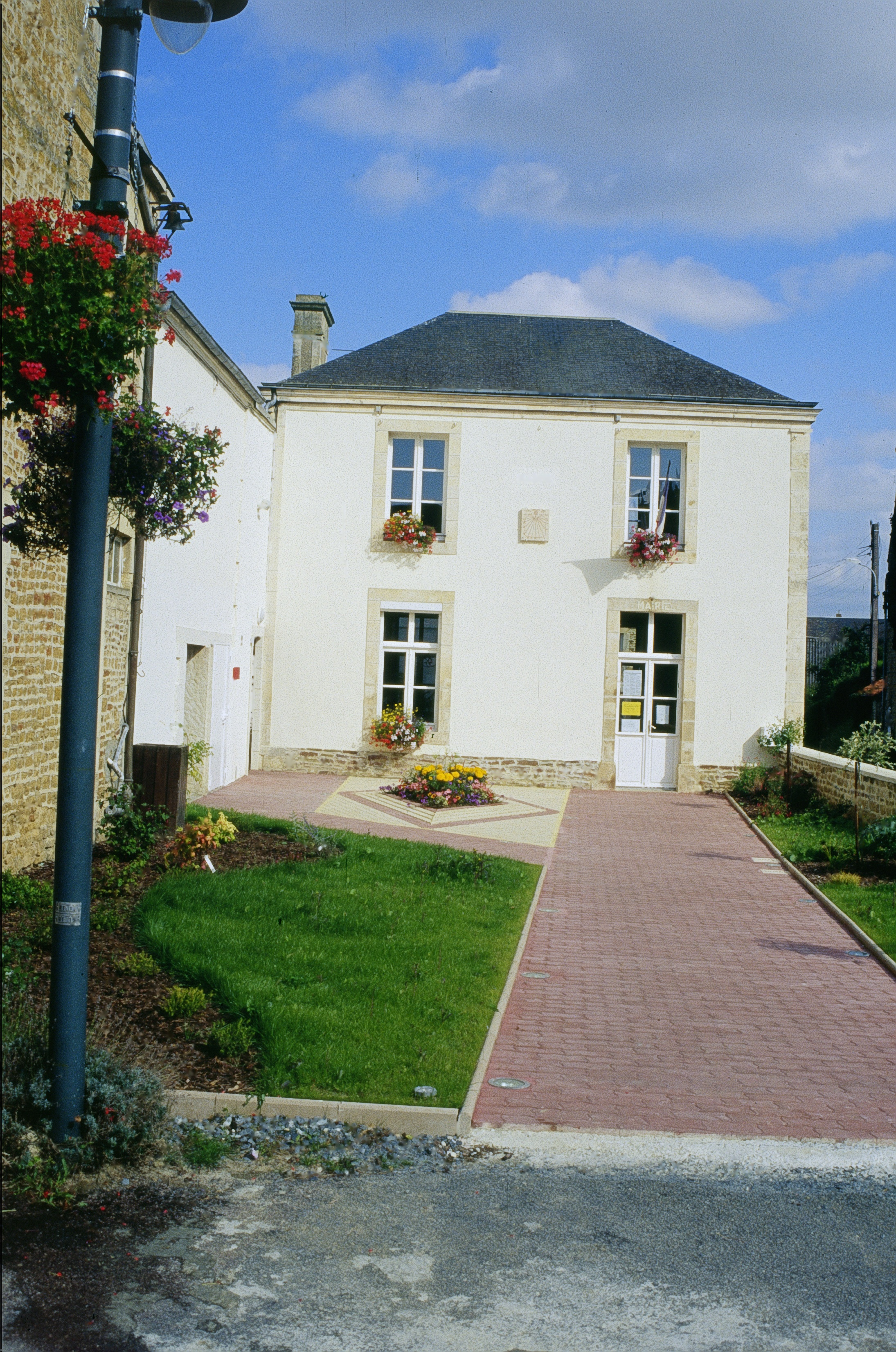 Town hall from Boulon in France; in Calvados